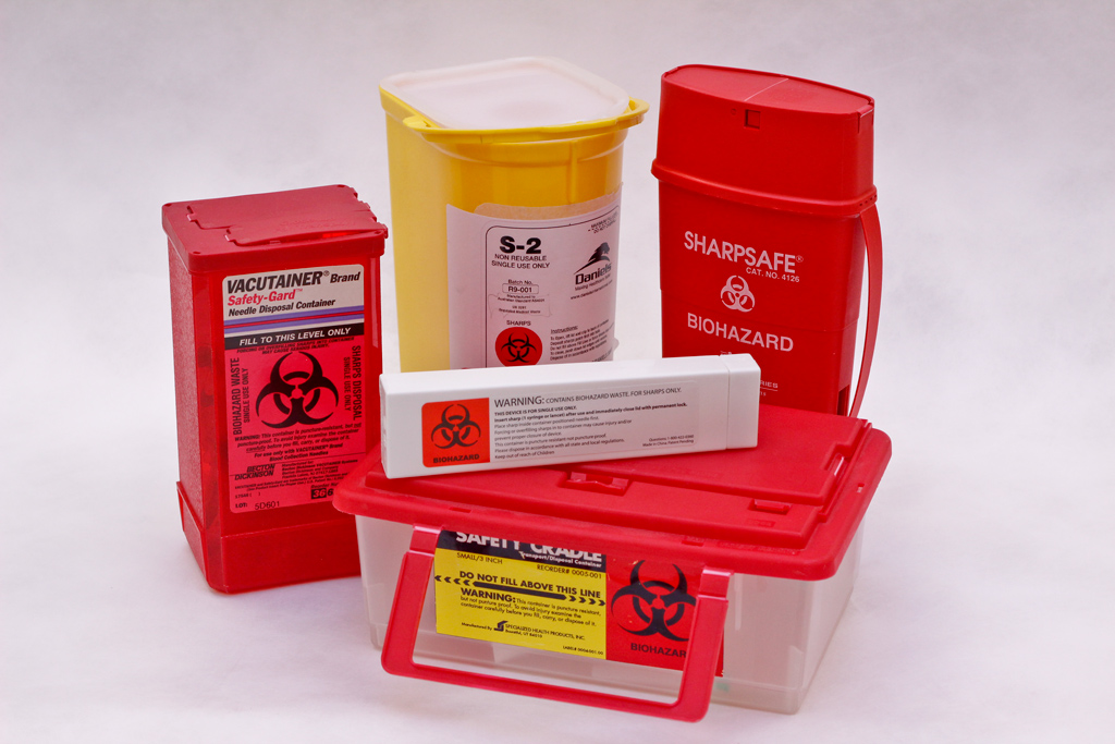 FDA-approved sharps disposal containers are made with puncture and leak-resistant plastic. The agency recommends that sharps - like needles, syringes, lancets and other devices used at home to treat diabetes, arthritis, cancer, and other diseases - be immediately placed after use in one of these containers. For more information about safe sharps disposal, visit